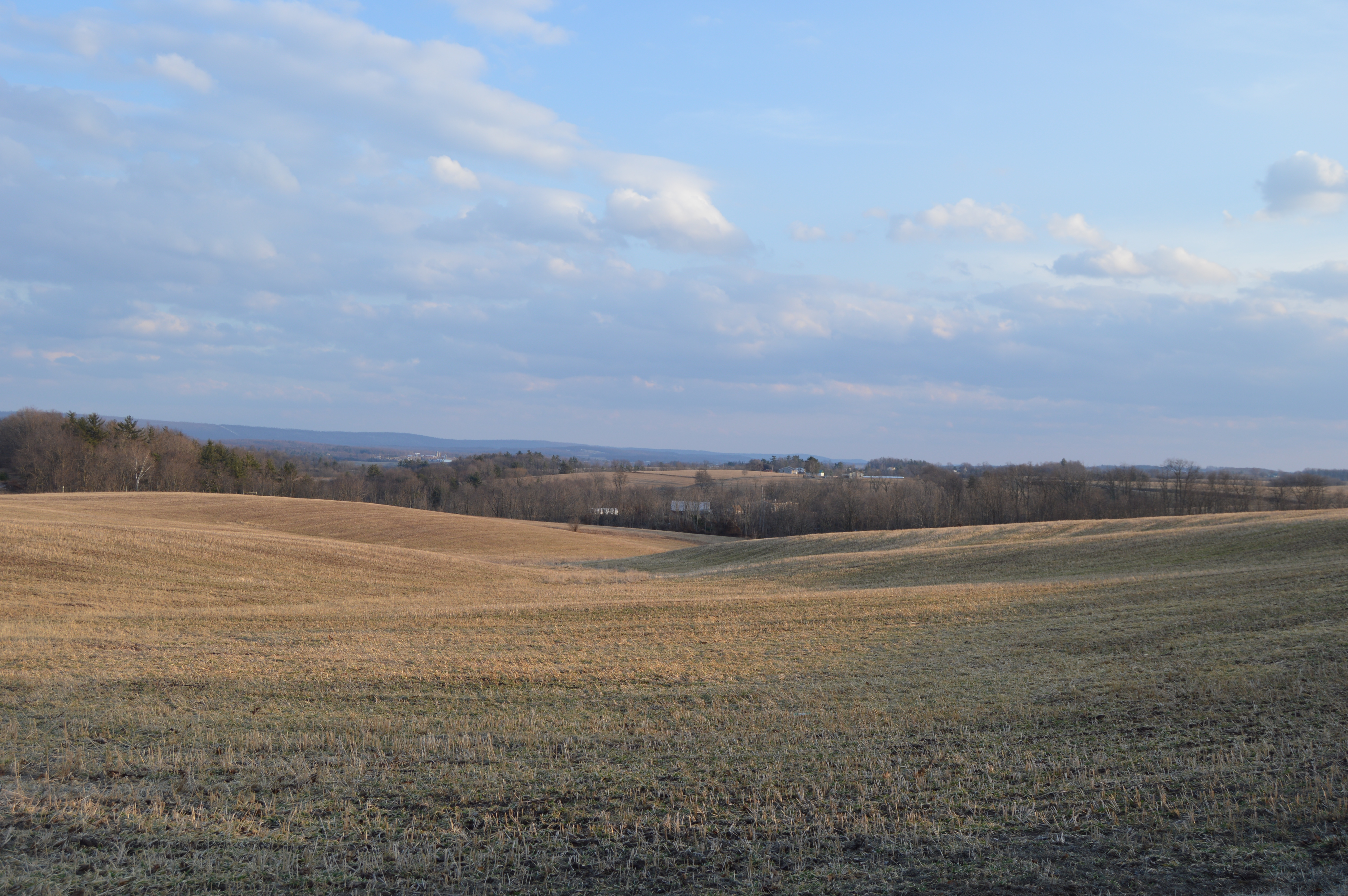 Rolling hills in West Providence Township, Bedford County, Pennsylvania, United States. Photo looks southeast from the junction of Ritchey and Pointer Roads, east and slightly south of Everett. Rays Hill can be seen in the distance.